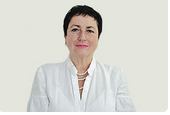 «Լույս» հիմնադրամի գործադիր տնօրեն